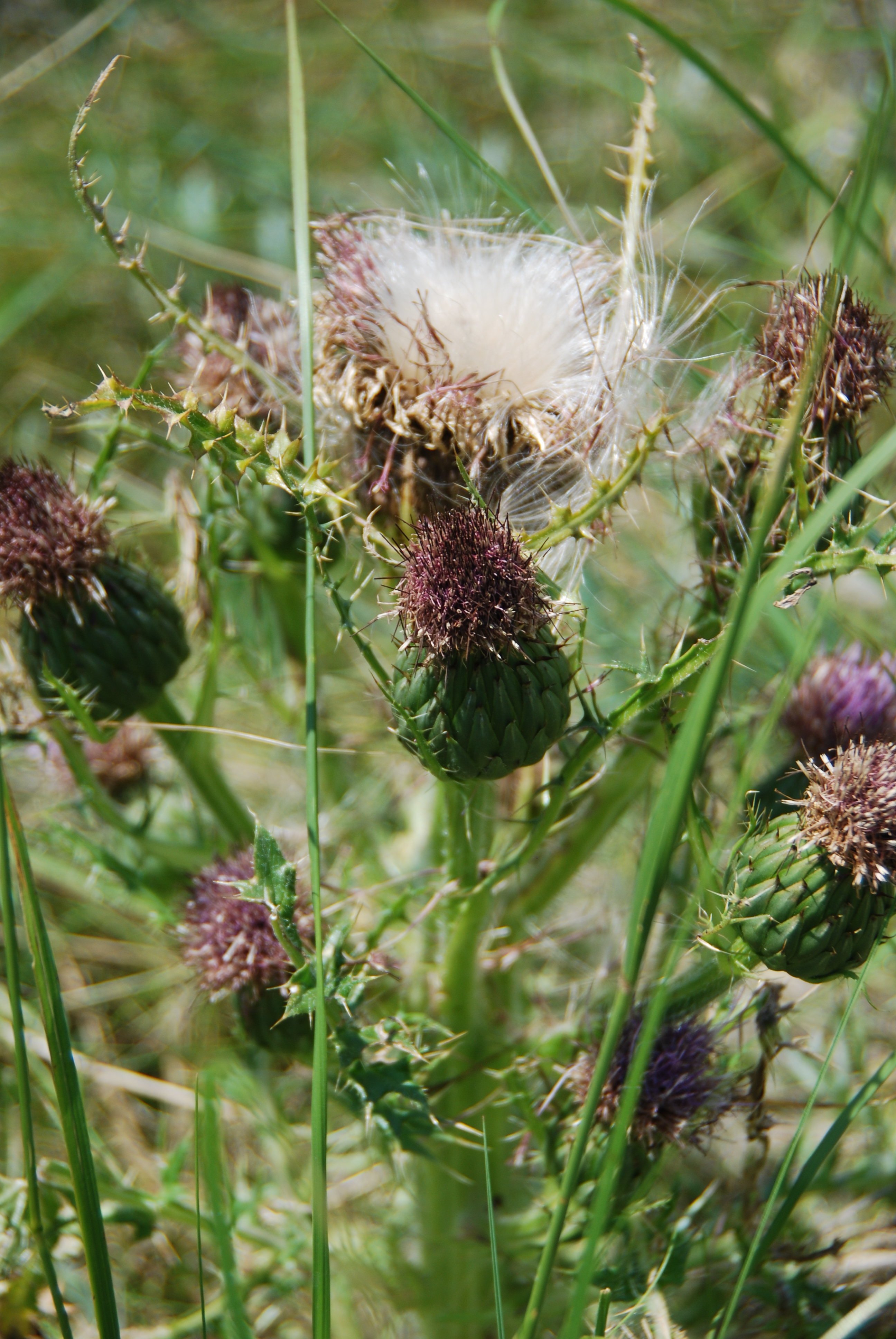 Cirsium drummondii at Custer, South Dakota, USA